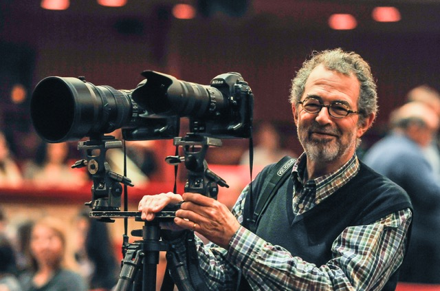 Clive Barda with cameras 2014